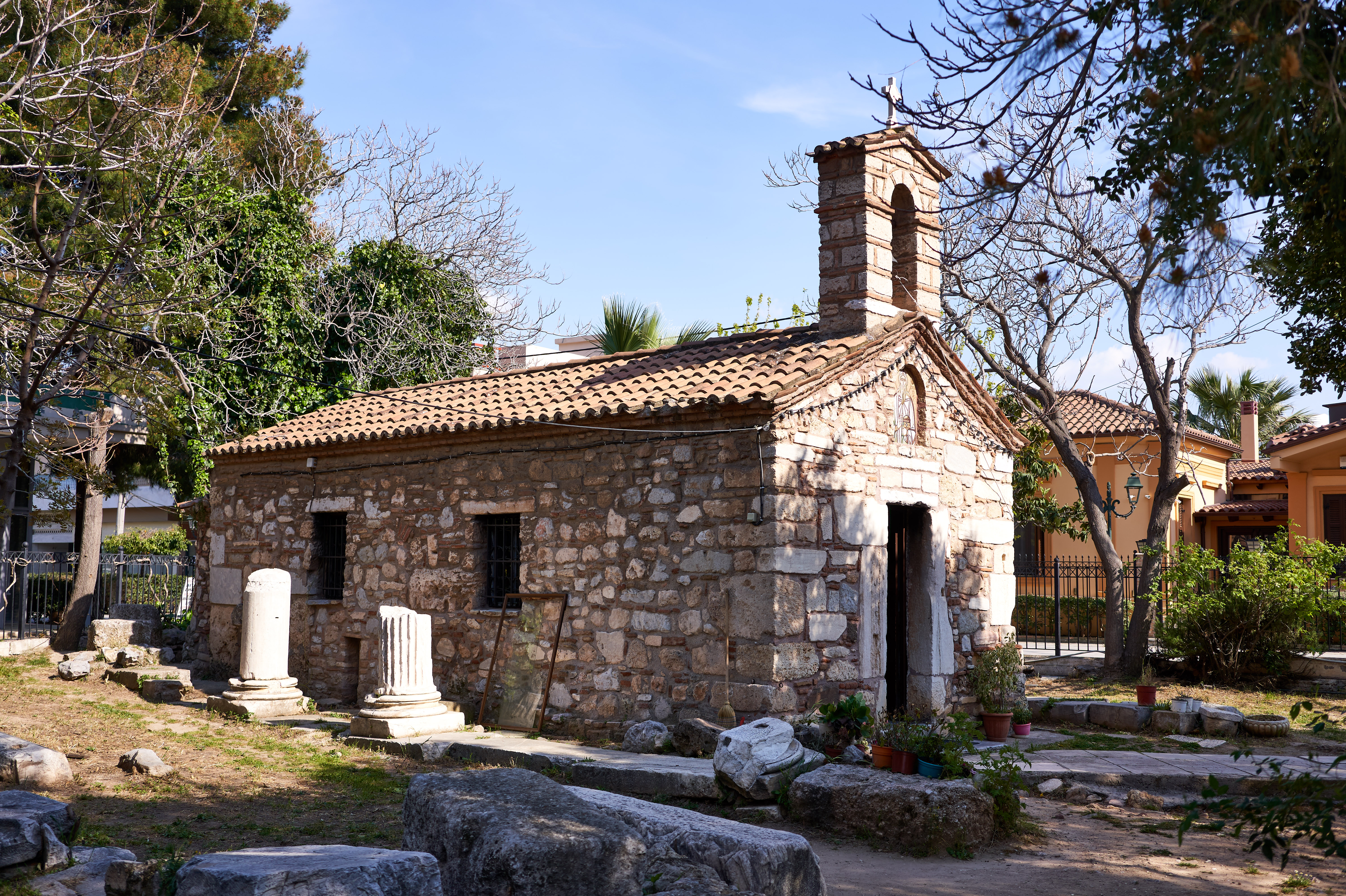 The post-Byzantine church of Hagios Zaharias at Eleusis. The church was built on the ruins of a 5th-century Christian basilica and materials from the nearby Sanctuary of Demeter were incorporated into its walls.